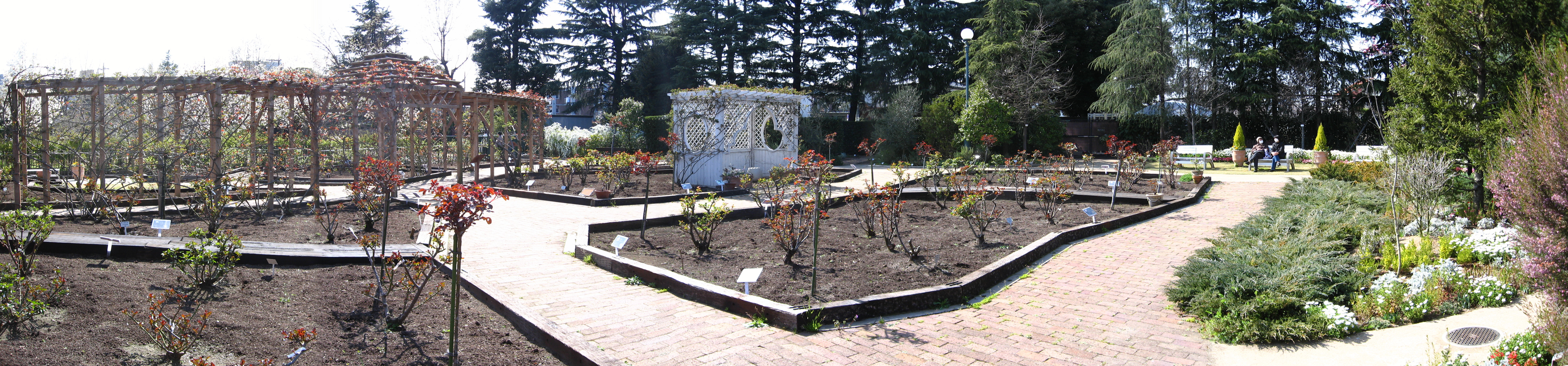 Keio Frower garden "Ange".